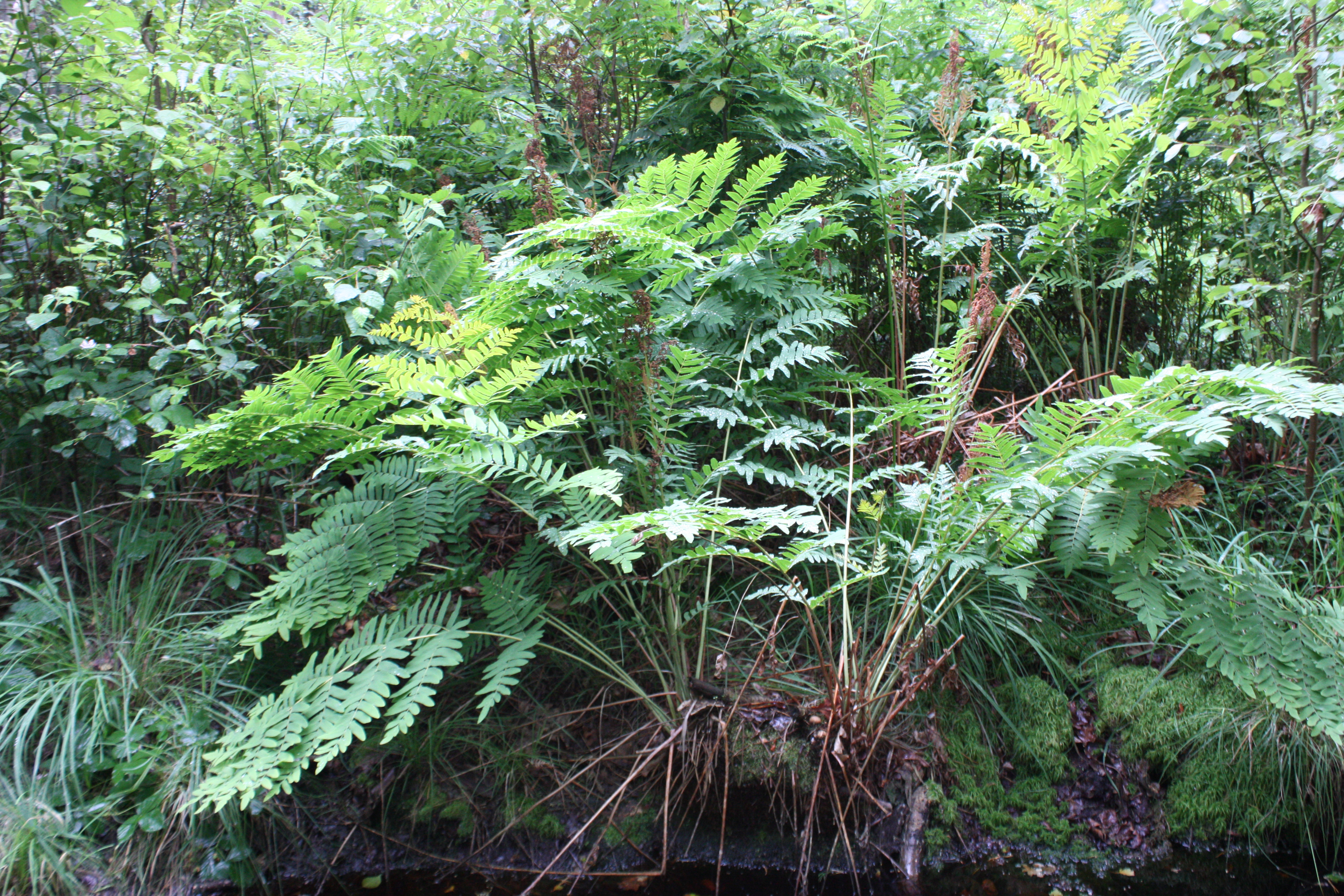 Osmunda regalis, Poland, Gać (gmina Główczyce) near forest road, Słowiński Park Narodowy.